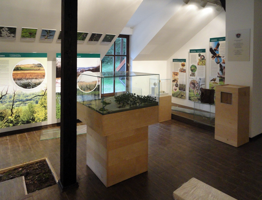 Rambyno Visitor Centre exposition part-3